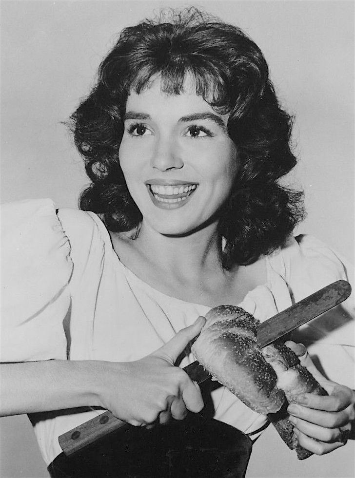 Zohra Lampert in publicity photo